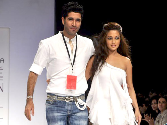 Riya Sen at Lakme Fashion Week 2011 (Designer: Arpan Vohra)